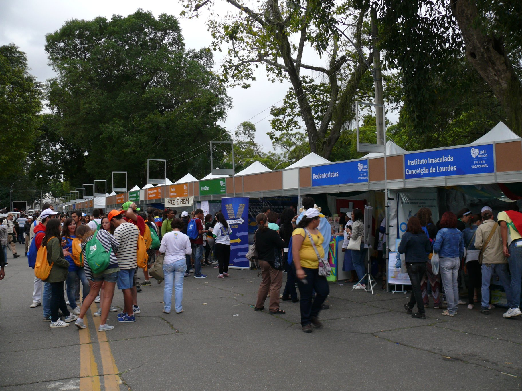 The 2013 World Youth Day in Rio de Janeiro (Brésil).